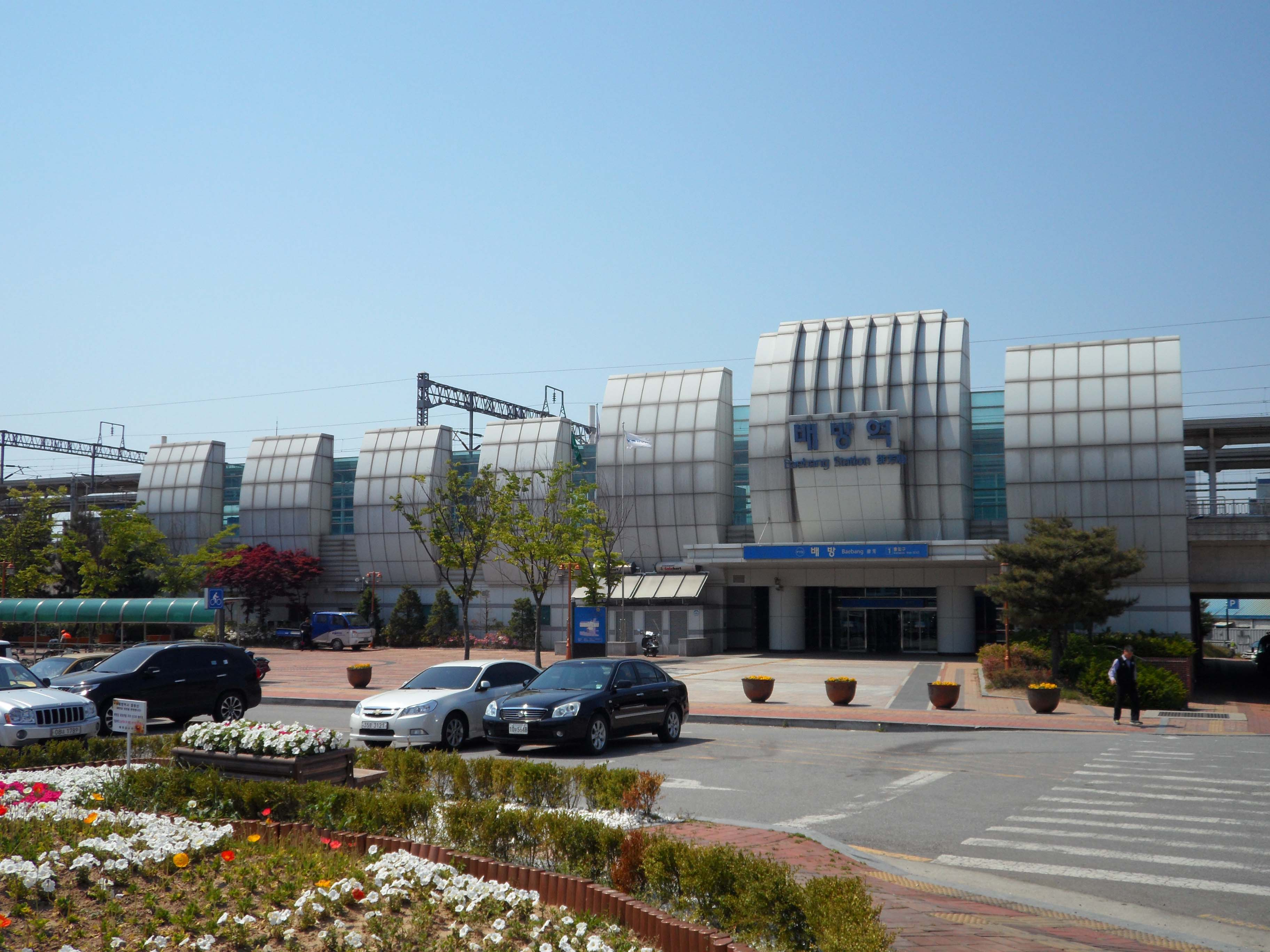 Baebang station (Asan city)